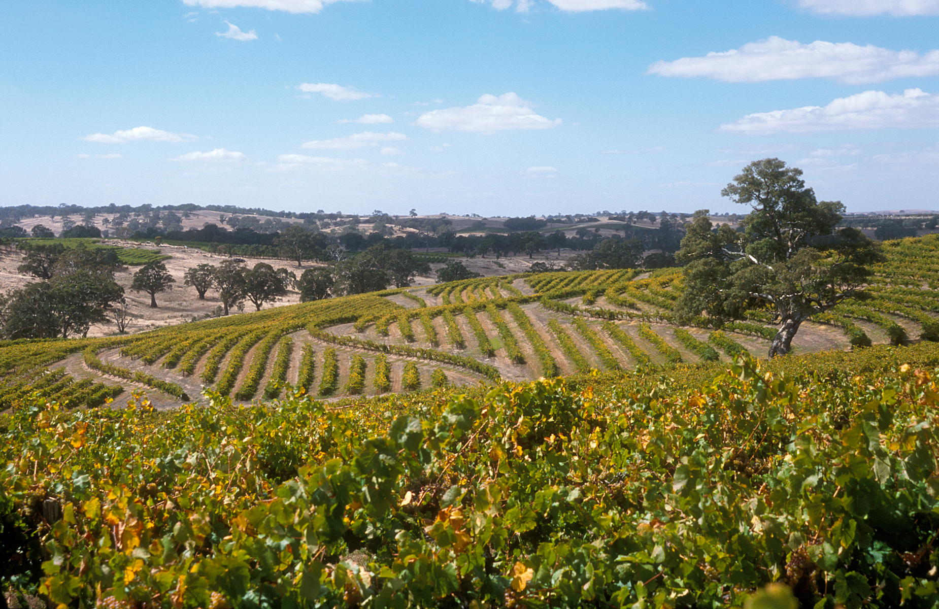 CSIRO Precision Viticulture Trial site in the Eden Valley, SA. March 2004.